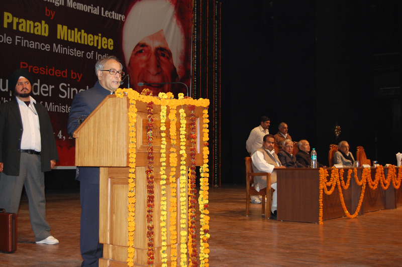 Pranav Mukherjee Addressing an Event At MDU